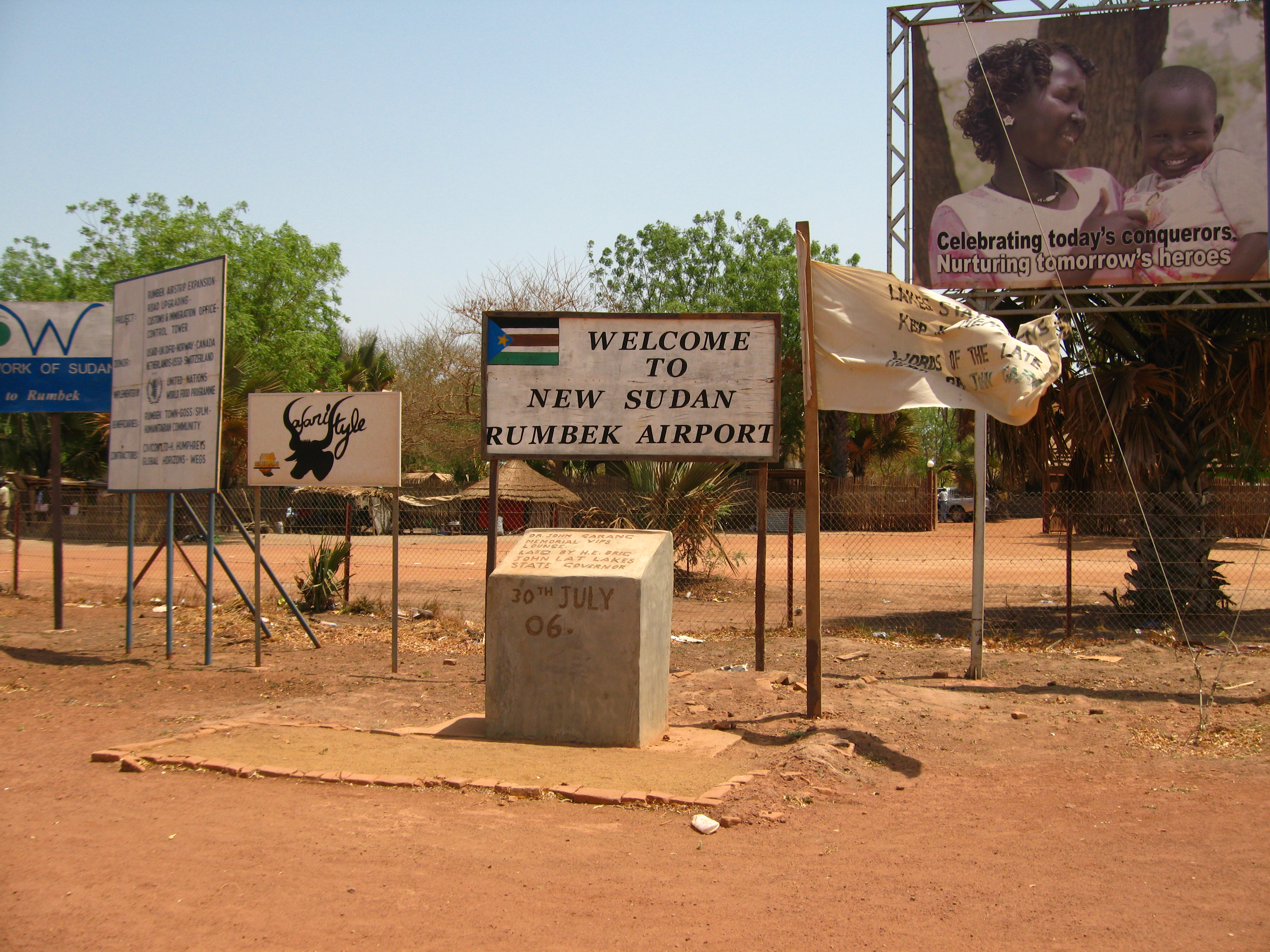 Rumbek Airport (HSMK), South Sudan.